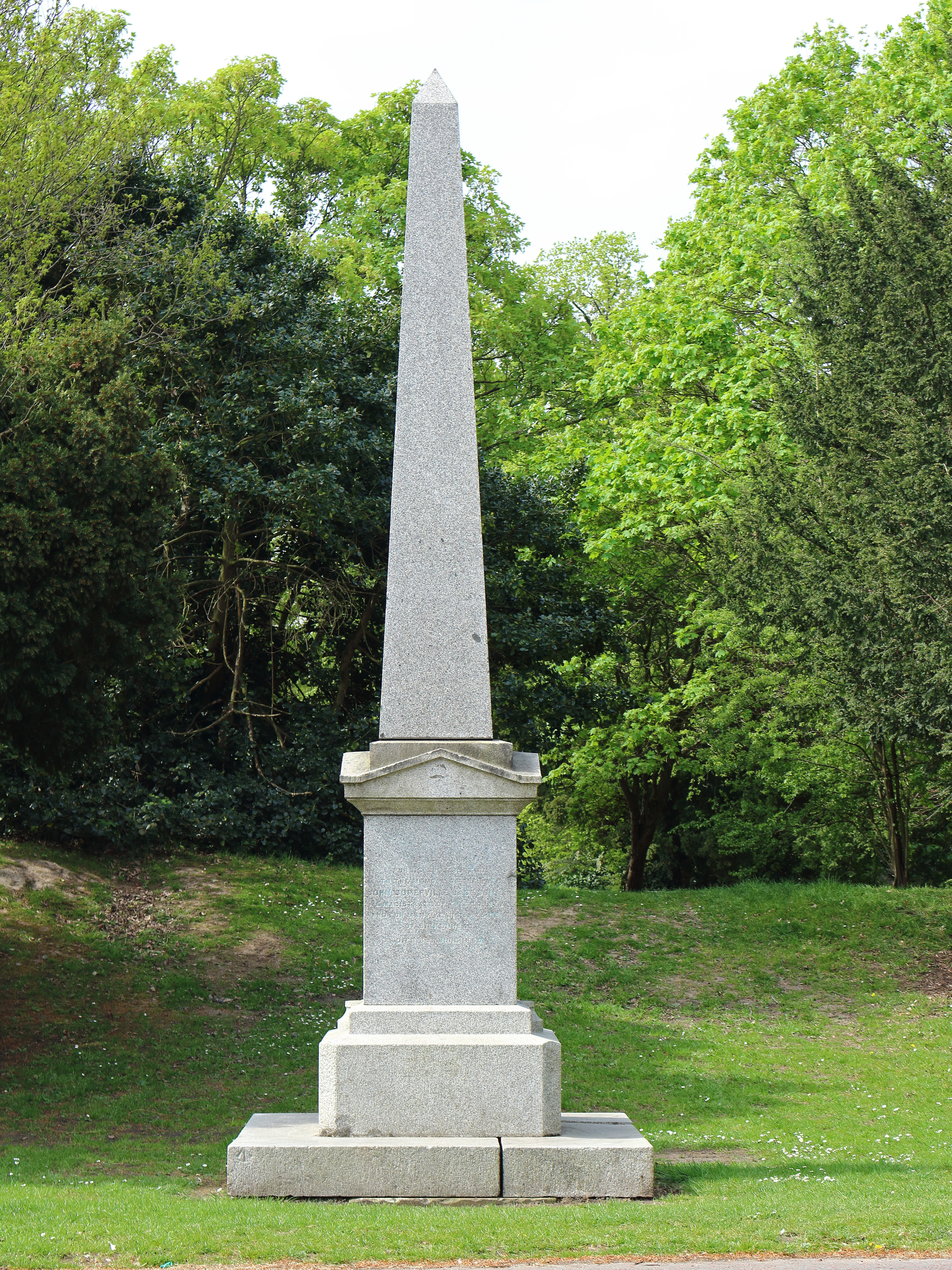 Front view of the monument approaching from the Grand Entrance